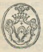 Coat Shydlovsky family. Cossack (Lord-colonel) family Kharkiv and Izyum regiments. Also Russian empire noble family.